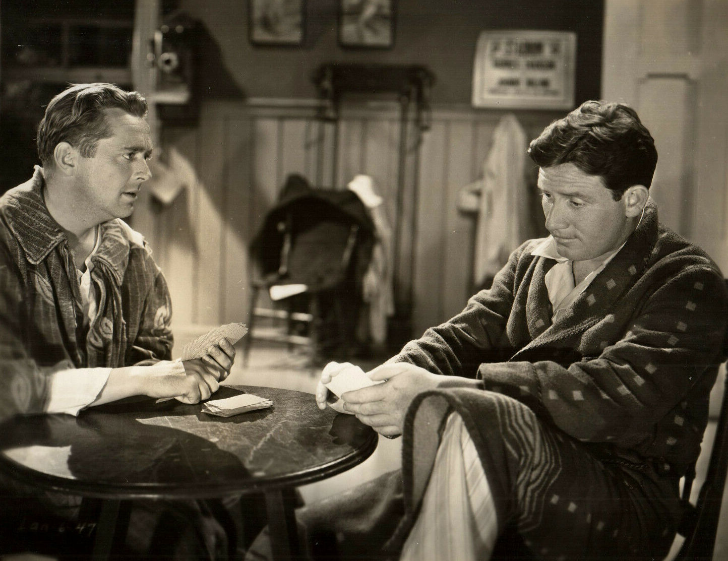 Press photo of James Dunn and Spencer Tracy in the 1932 film "Society Girl"